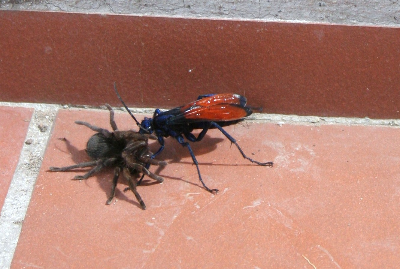 Photo of a tarantula hawk carrying his prey.